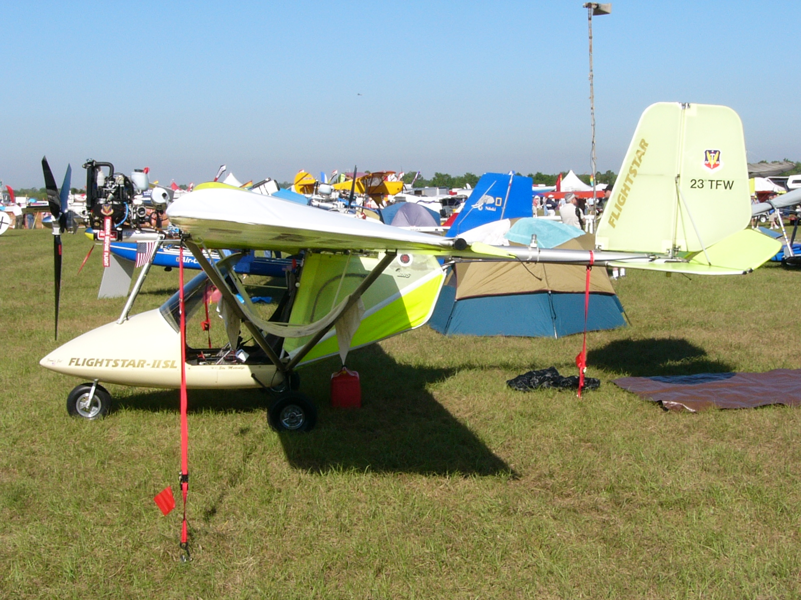 A Flightstar IISL at Oshkosh 2006